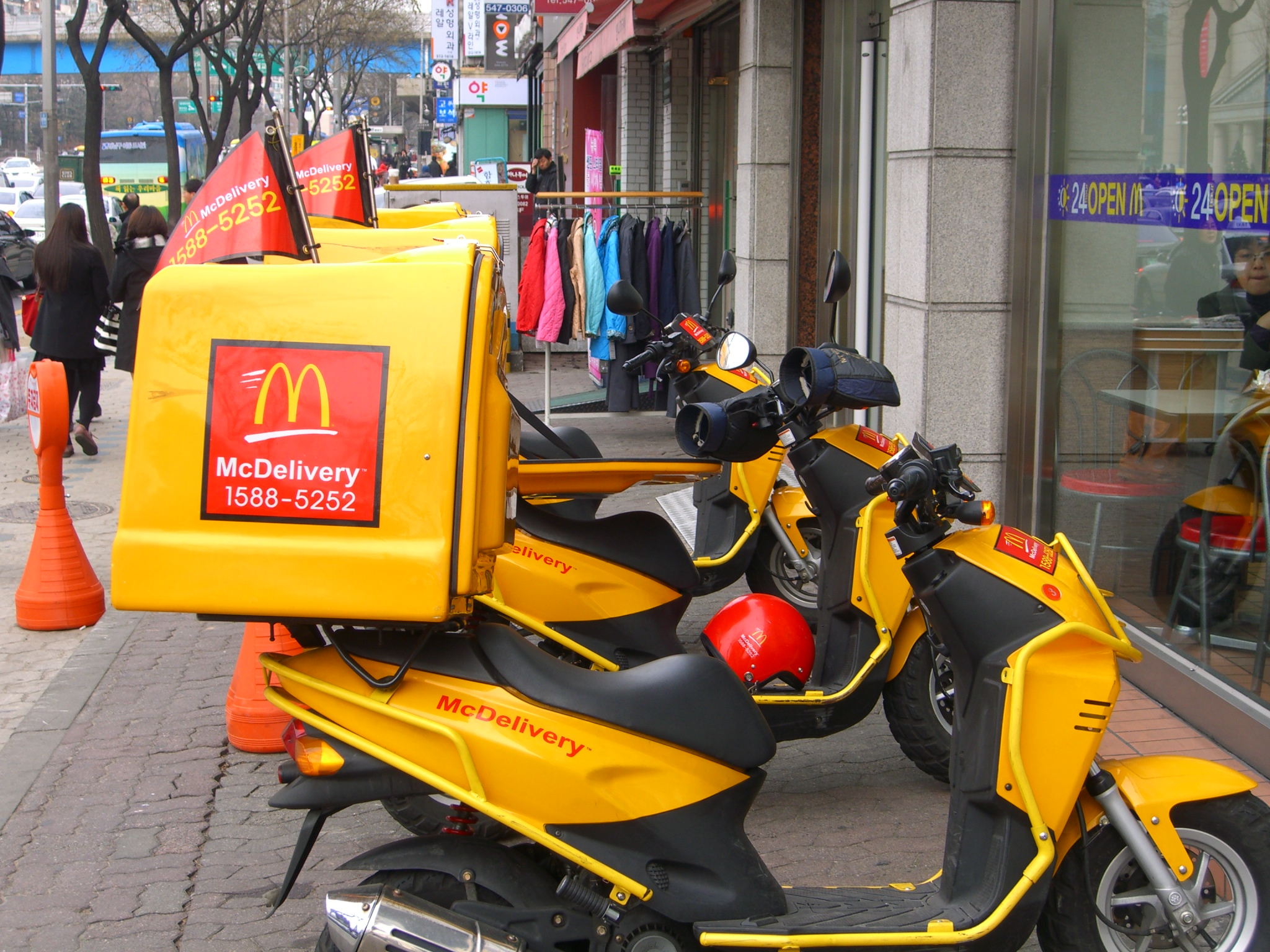 mcdonalds delivery in south korea